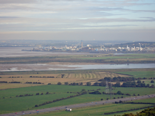 View from Helsby Hill Helsby: Ineos Chlor works, River Mersey, Manchester Ship Canal and River Weaver from Helsby Hill.